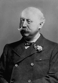 Hubert Parry